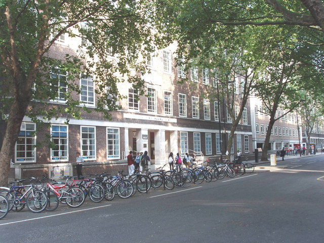 The front of the University of London building, Malet Street